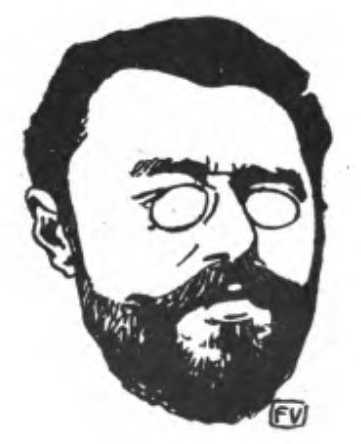 Portrait of French writer Francis Jammes (1868-1938) from Le Livre des masques (vol. II, 1898) by Remy de Gourmont (1858-1916)